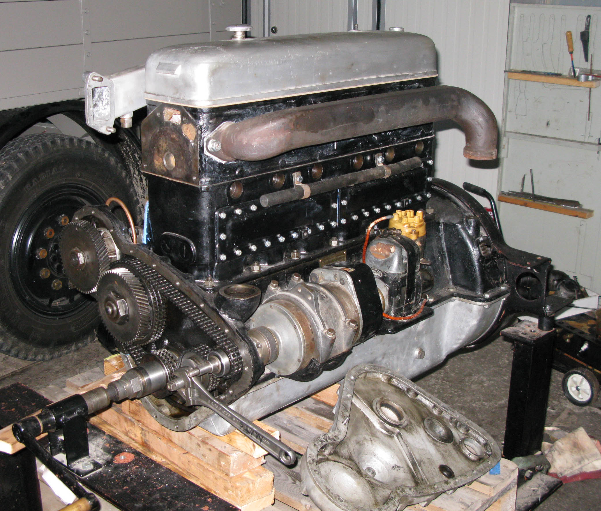 Tidaholm six cylinder ohv Hesselman engine undergoing refurbishing. The spark plugs and wires have been dismantled but note the yellow cap on the distributor.Location: Tidaholms Museum